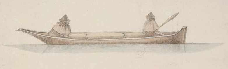 Detail from drawing by Sigismond Bacstrom on his voyage around the world, 1792-1795